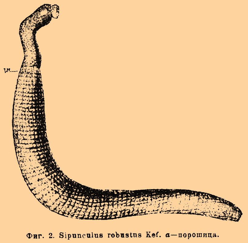 Illustration from Brockhaus and Efron Encyclopedic Dictionary (1890—1907)